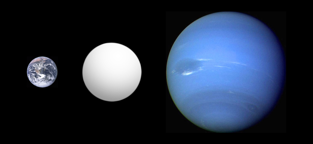 Comparison of best-fit size of the exoplanet Kepler-11 b with the Solar System planets Earth and Neptune, as reported in the Open Exoplanet Catalogue[1] as of 2010-09-30. ↑ Open Exoplanet Catalogue (2010-09-30). Retrieved on 2010-09-30.